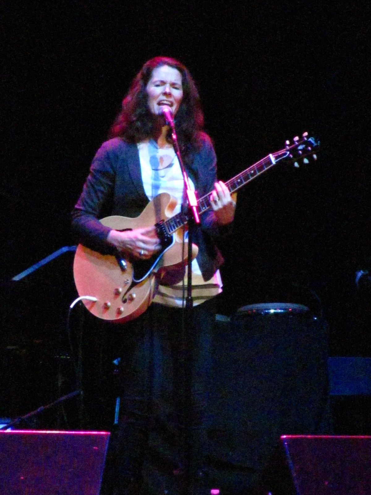 Edie Brickell, New York 2011.